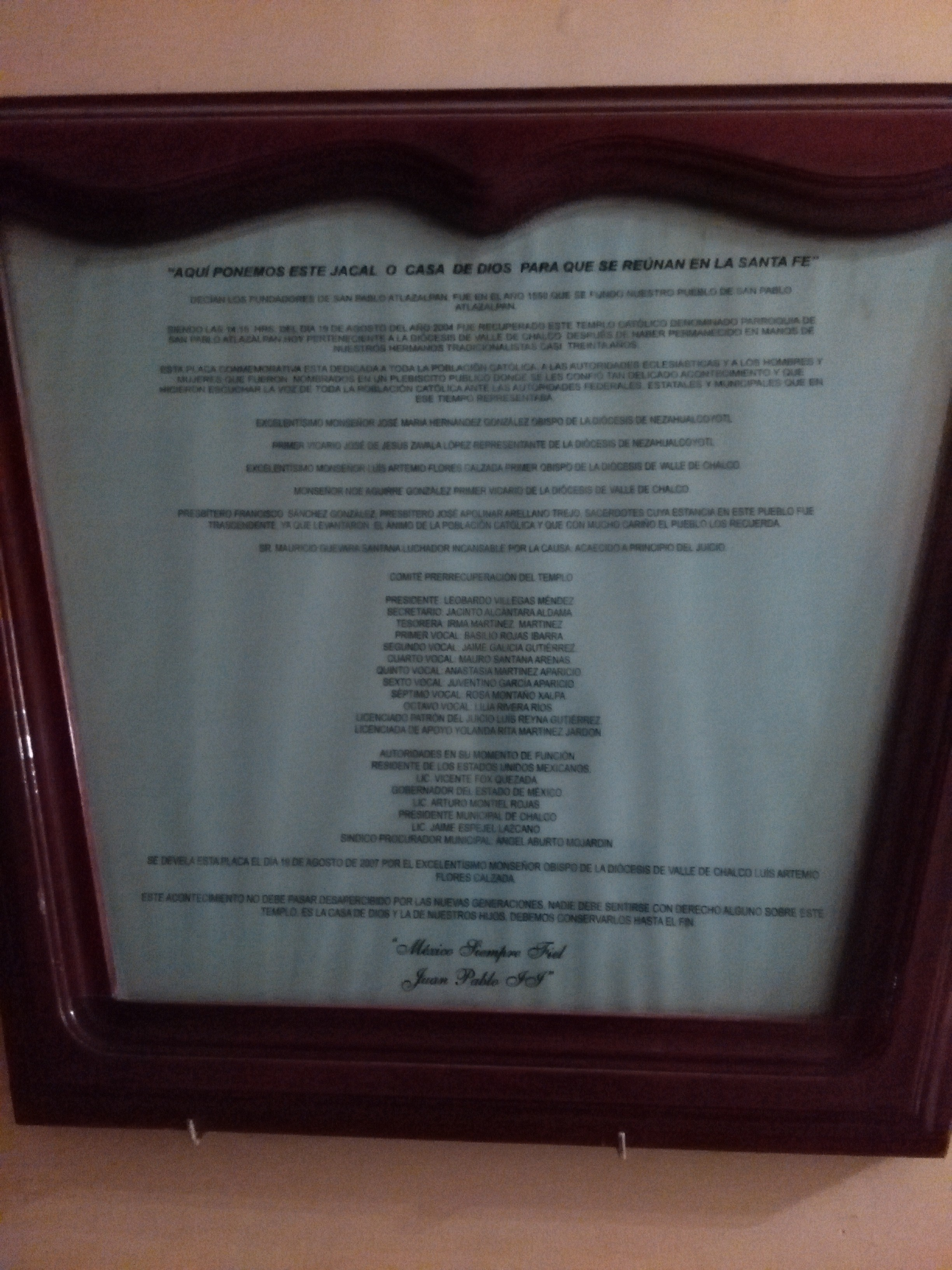 Plaque that tells the sory of how San Pablo Atlazalpan church was recover by the catholics